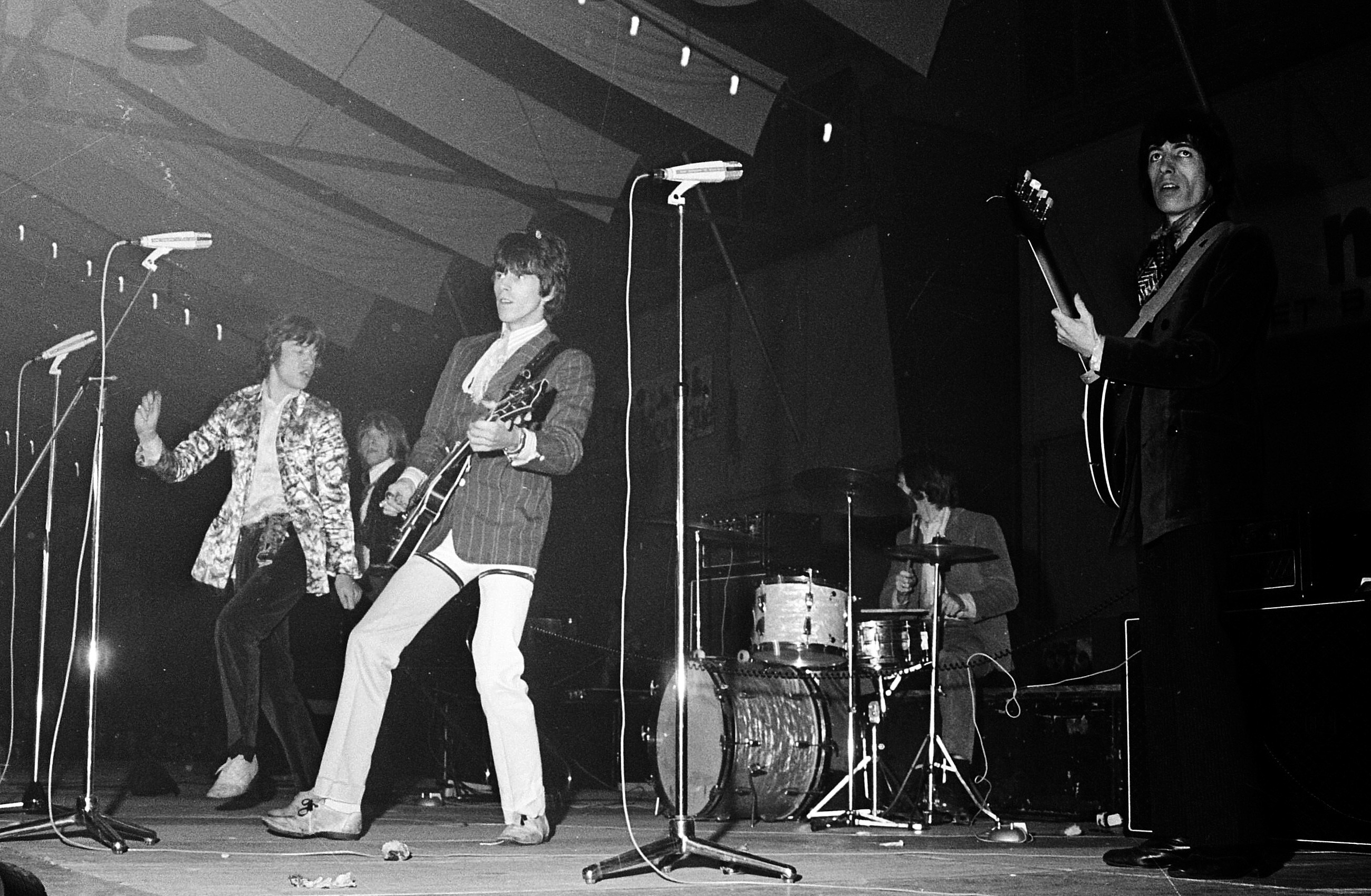 Rolling Stones in concert, Houtrusthallen The Hague (NL), 15 April 1967